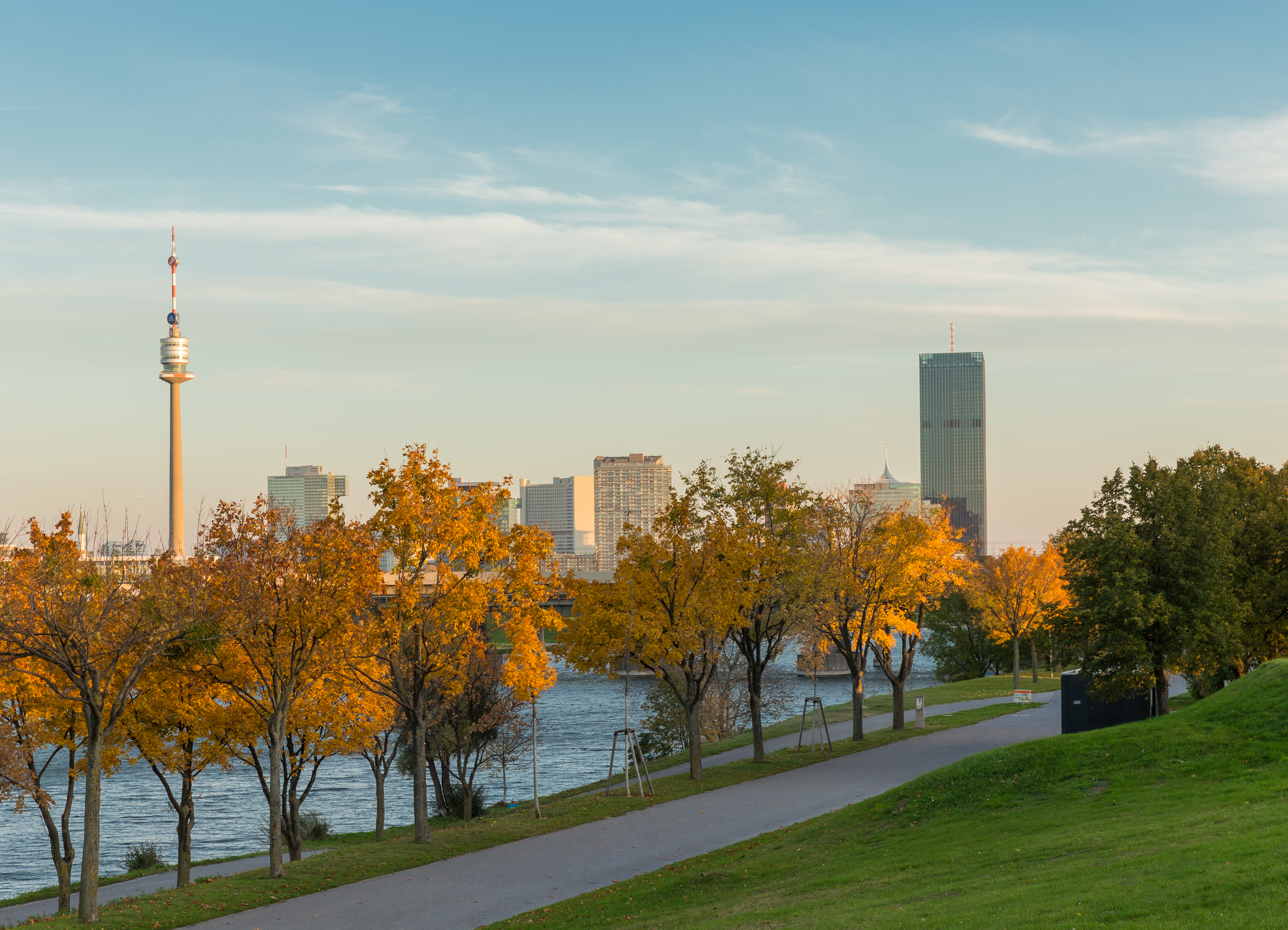 Donau City from the Donauinsel, Vienna International Centre and DC-Tower (View from the west)